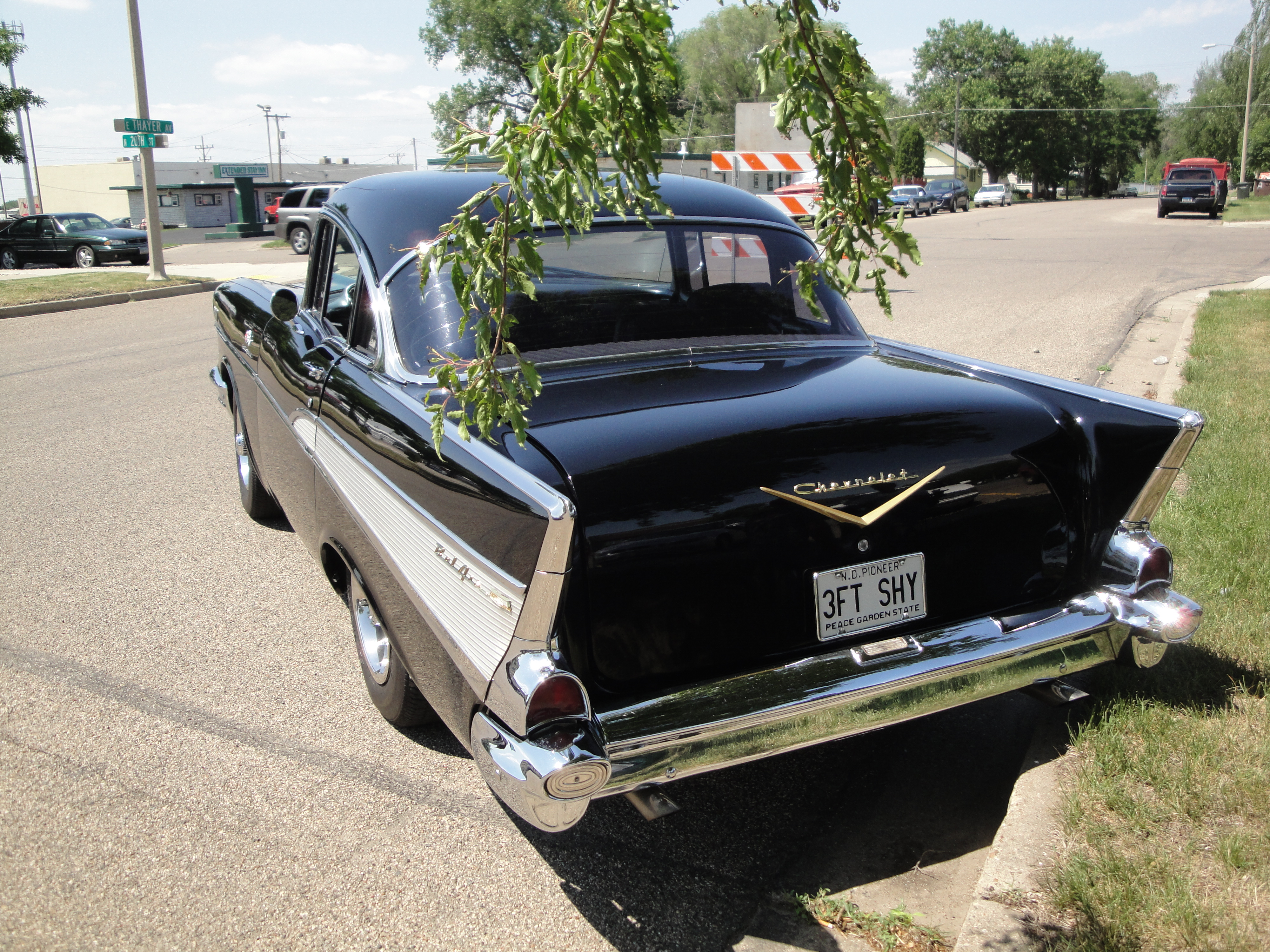 Bismark, North Dakota June 2012